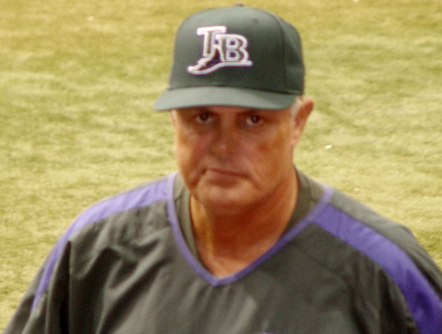 Manager of the Tampa Bay Devil Rays, Lou Piniella. Photo by Googie Man 09:12, 29 August 2005 . . Googie man . . 894×676 (222,623 bytes)